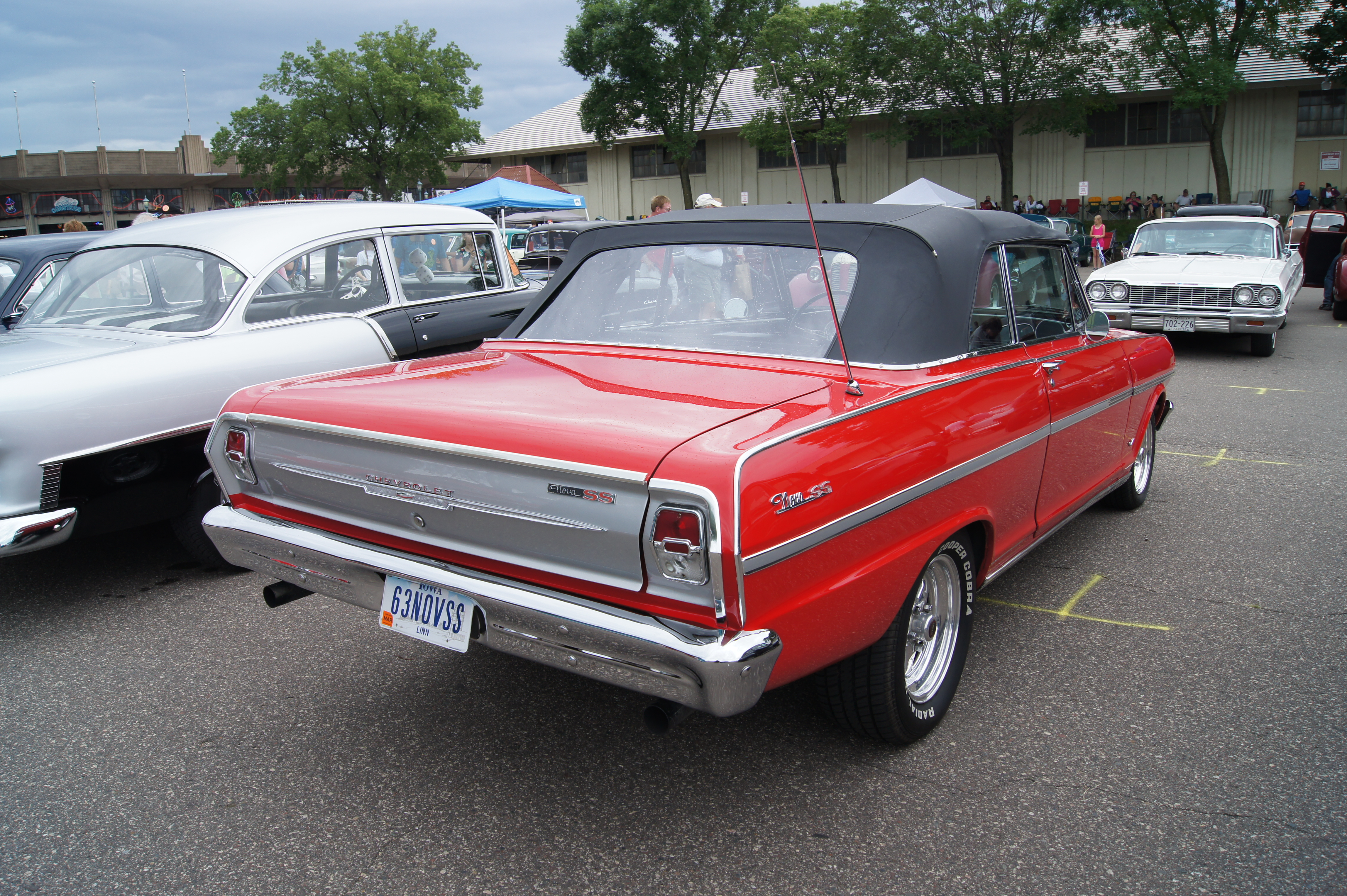 Minnesota Street Rod Association 39th Annual "Back to the Fifties" June 2012 Minnesota State Fairgrounds St. Paul MN